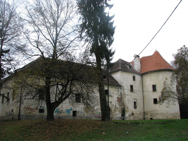 Erdödy Castle in Jastrebarsko, Zagreb County, Croatia